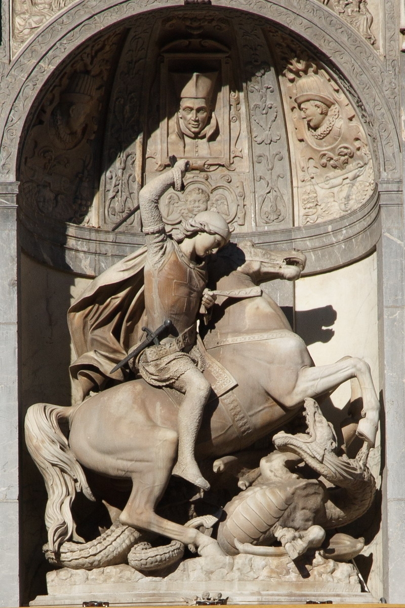 The Palau de la Generalitat de Catalunya houses the offices of the Presidency of the Generalitat de Catalunya. It is located in the Gothic Quarter of Catalonia's capital, the city of Barcelona.